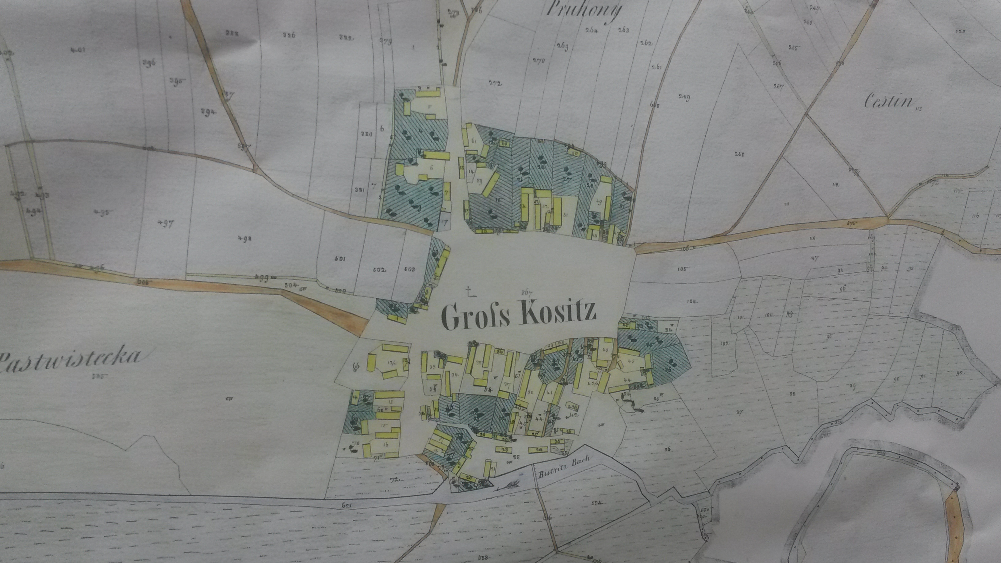 Kosice, cadastral map 1841